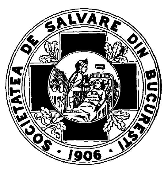 Emblem of Societatea de Salvare din Bucureşti ("Bucharest Ambulance Society"), founded in 1906 by Nicolae Minovici, M. D. (1868 - 1941).